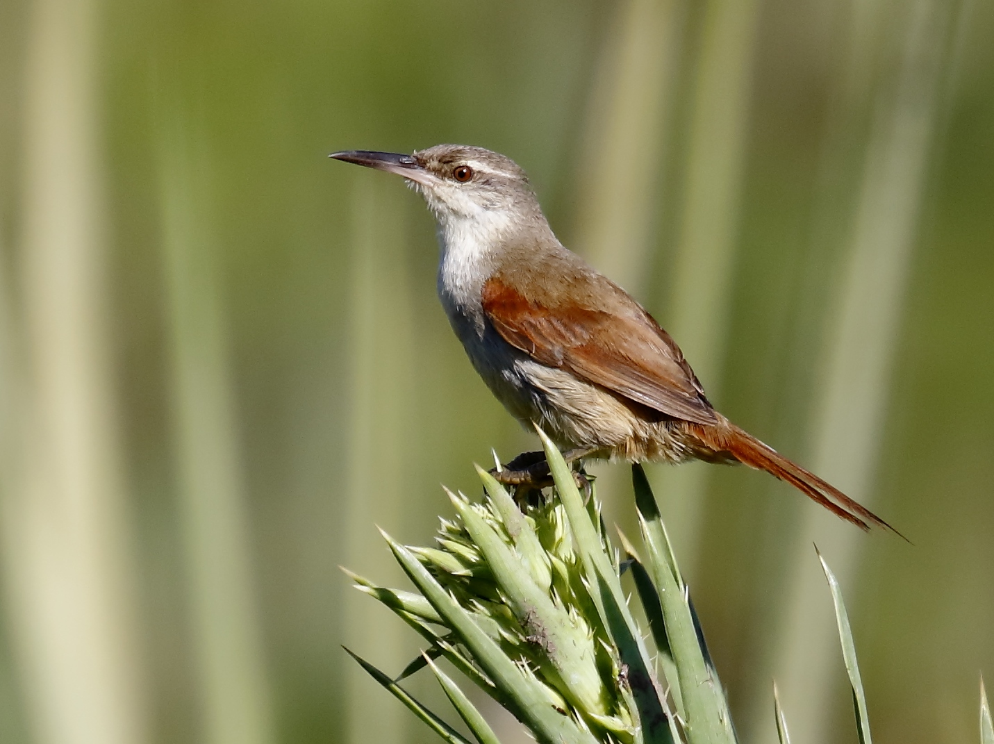 Straight-billed Reedhaunter; Candiota, Rio Grande do Sul, Brazil